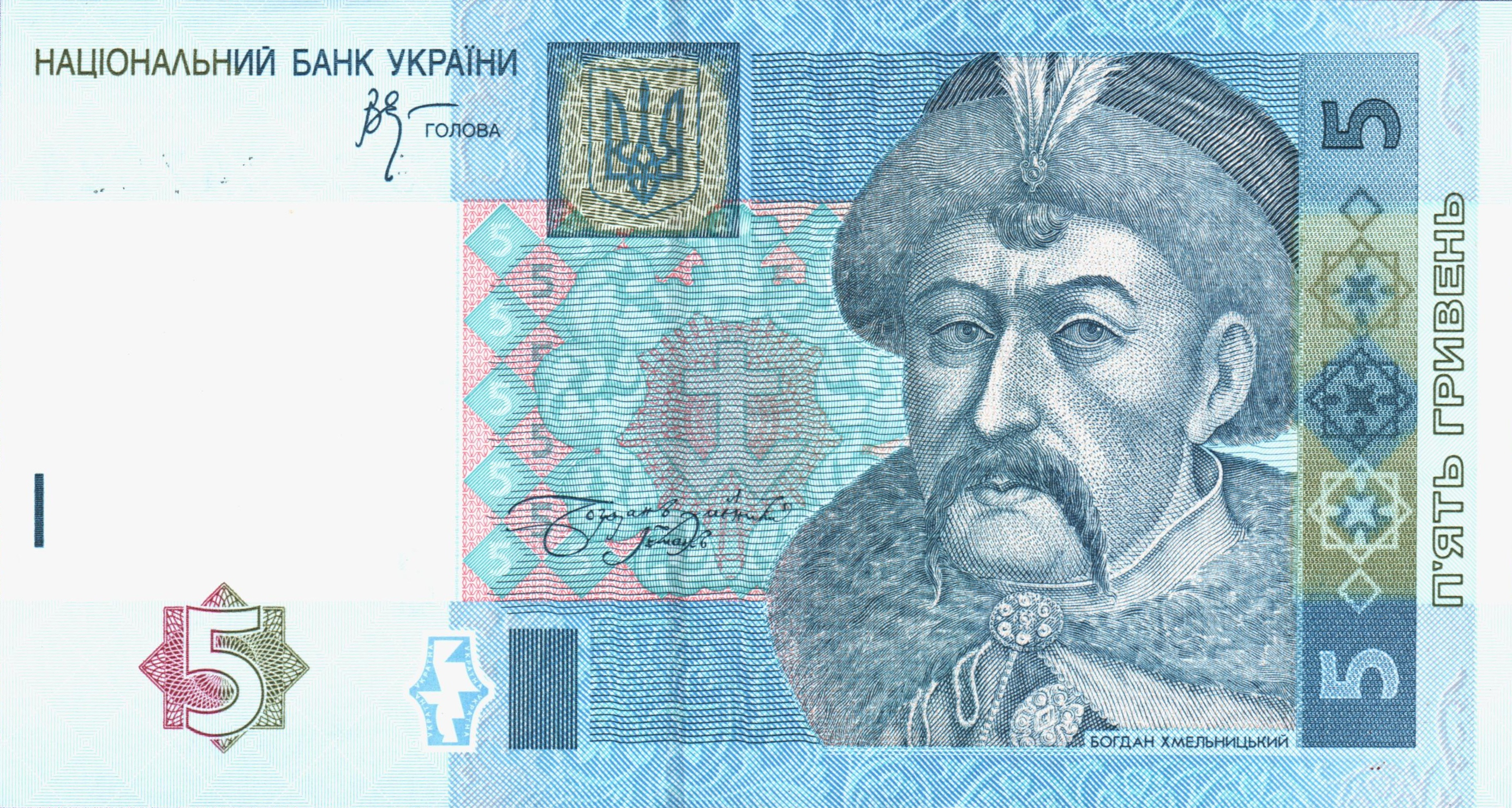 5 Hryvnia banknote (Ukraine), 2005, front